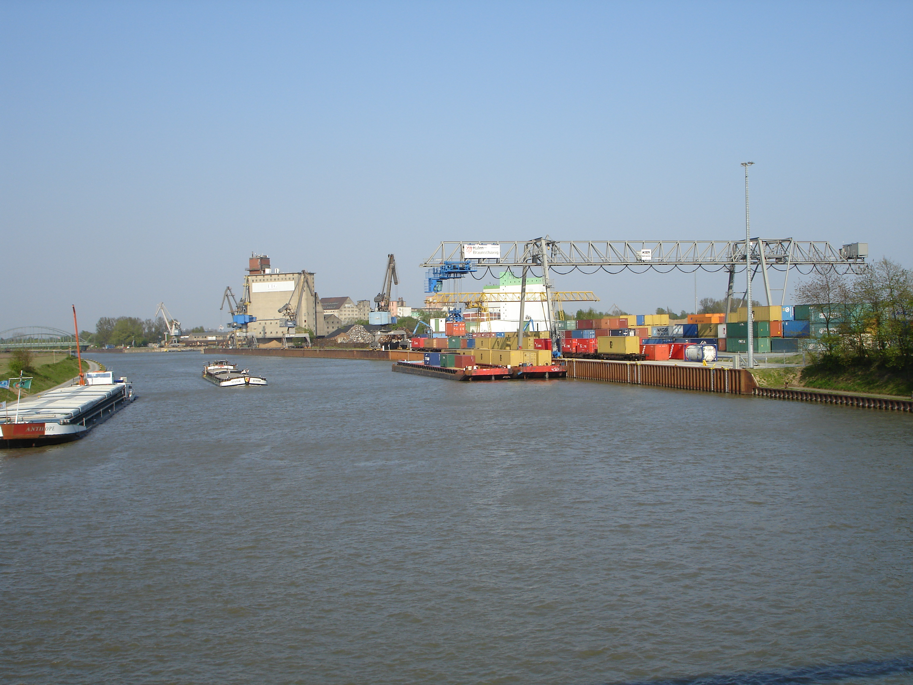 Inland port of Braunschweig, Germany